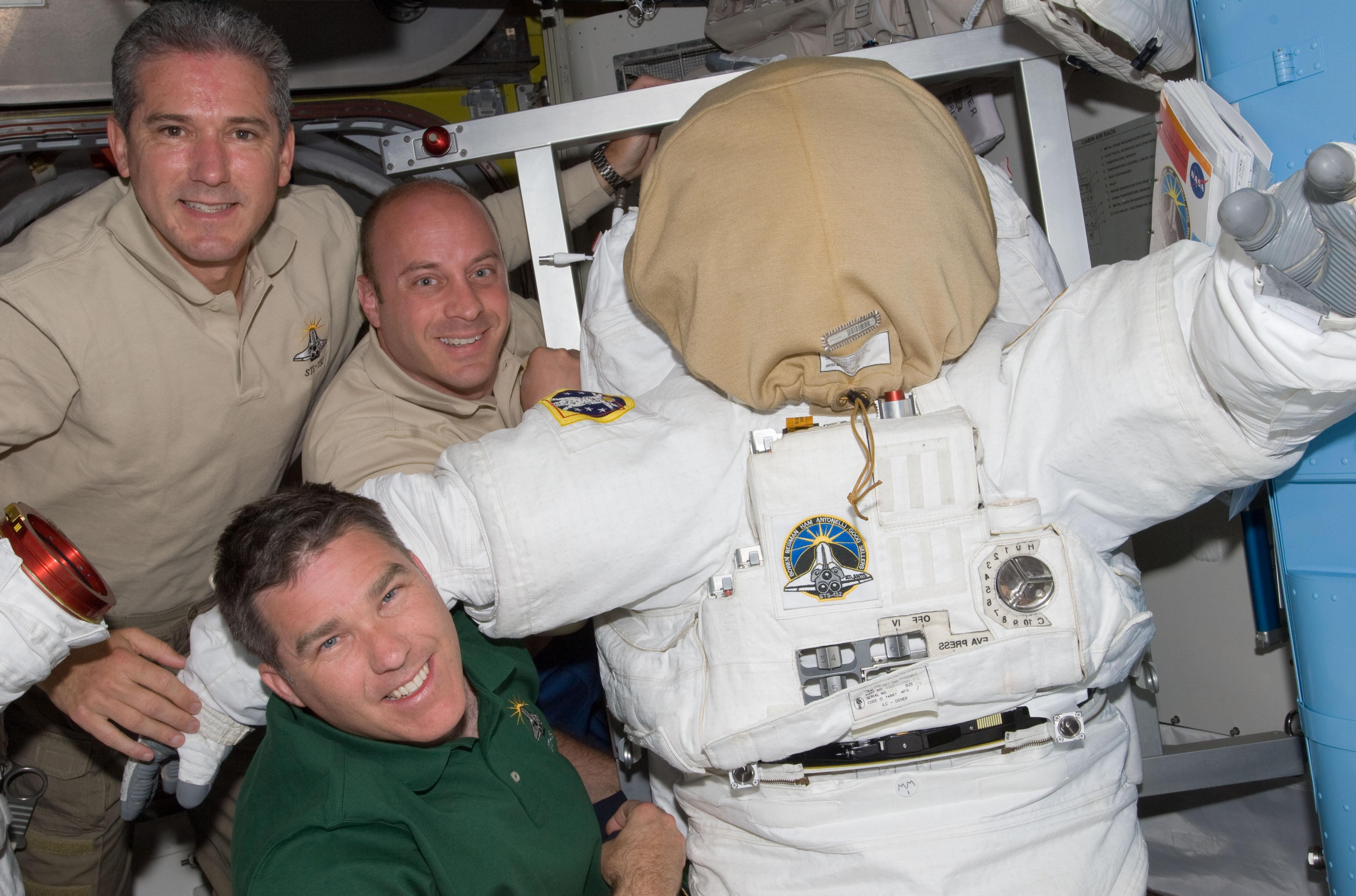 STS-132 Mission Specialists Michael Good (top), Garrett Reisman (center) and Steve Bowen pose for a photo with an Extravehicular Mobility Unit spacesuit in the Quest airlock of the International Space Station while space shuttle Atlantis remains docked with the station.